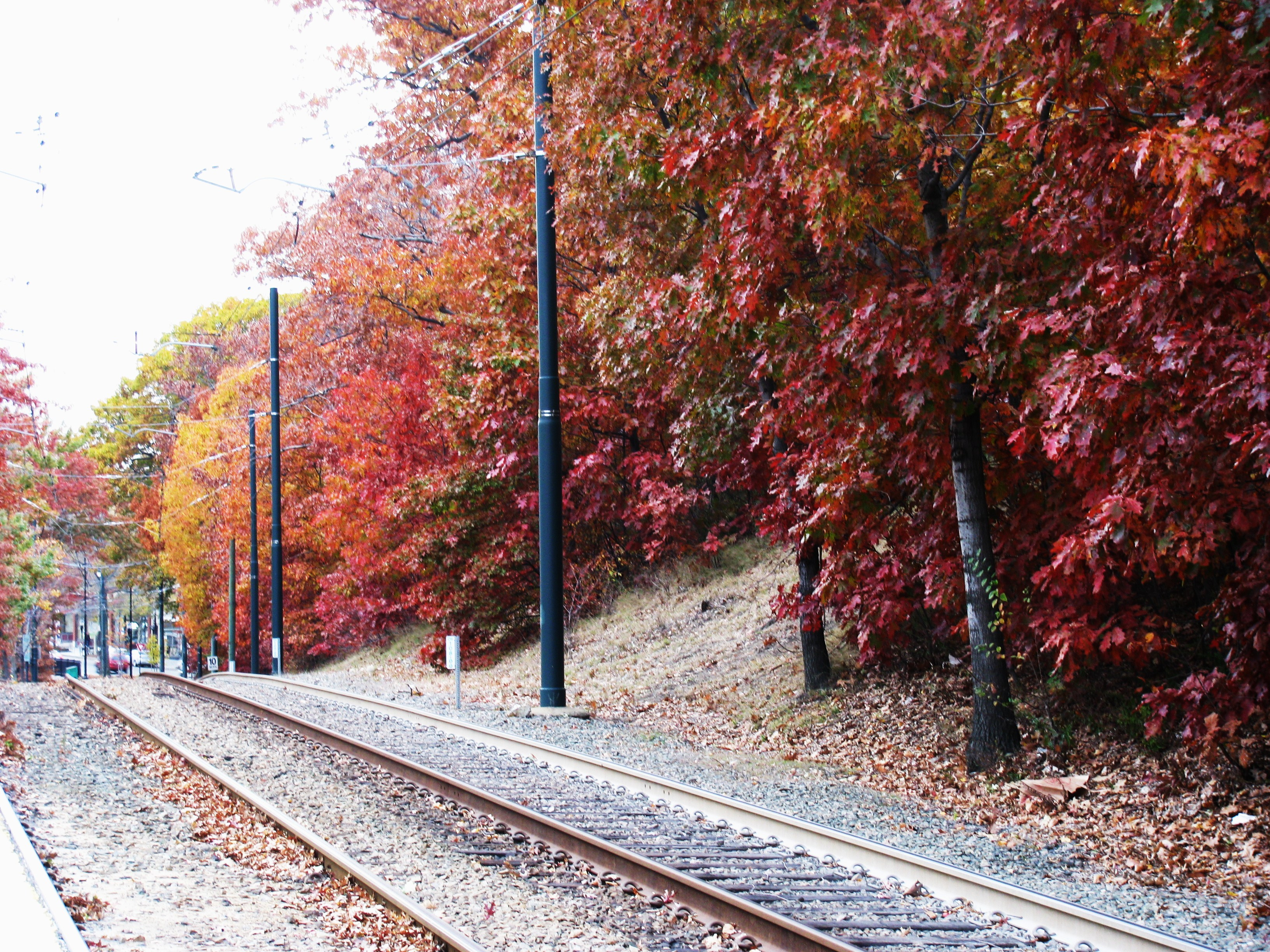 The Fairbanks stop on the "C" Branch of the MBTA Green Line.